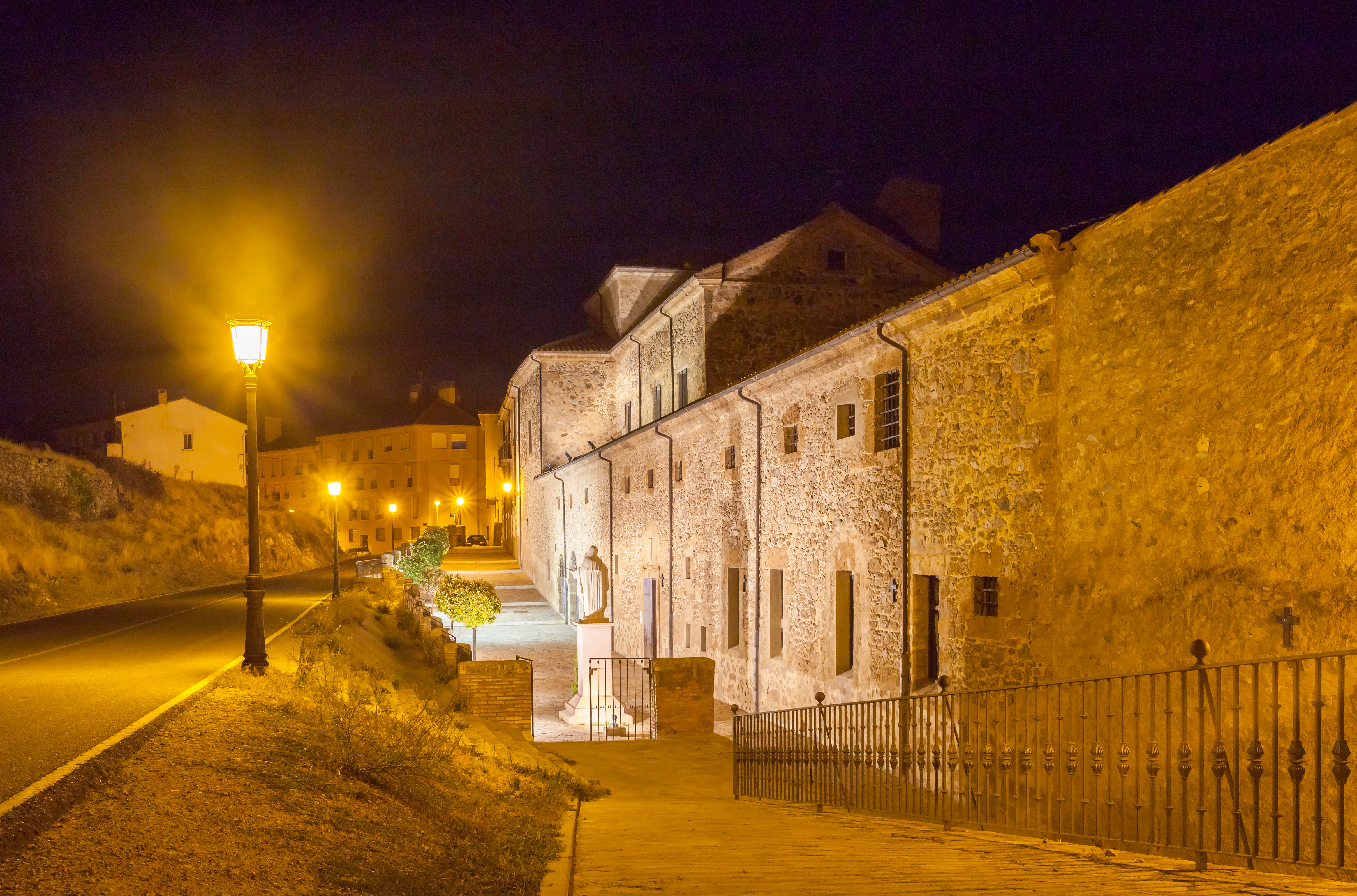 Convento de la Concepción, Ágreda, España